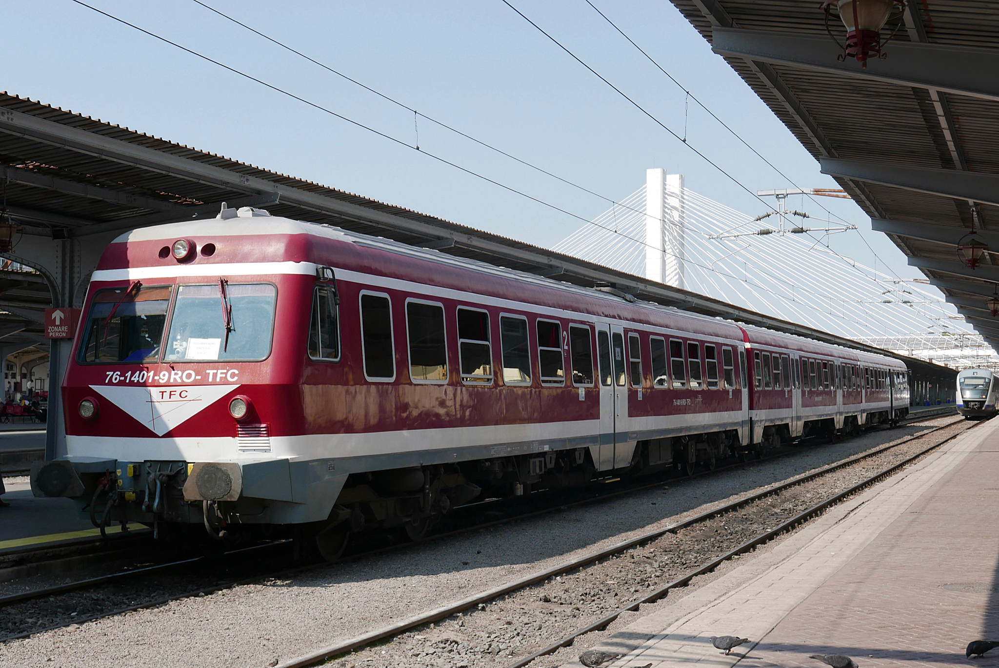 TFC 76-1401-0 at Bucuresti Nord station.